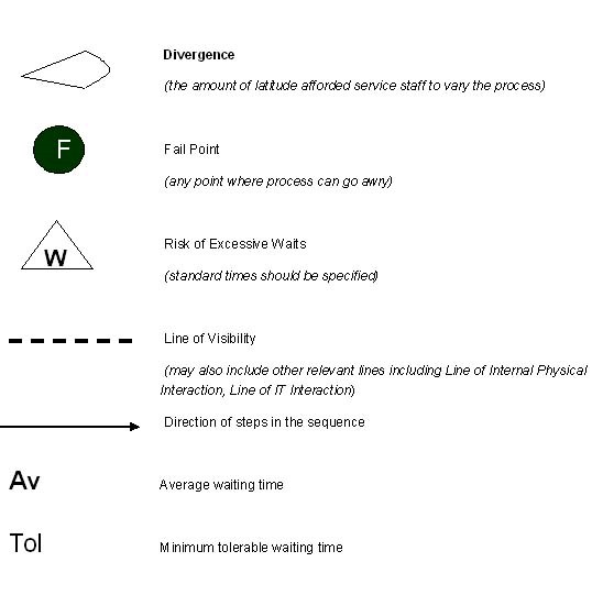 symbols typically used in service blueprints (collected from a review of more than 20 articles)